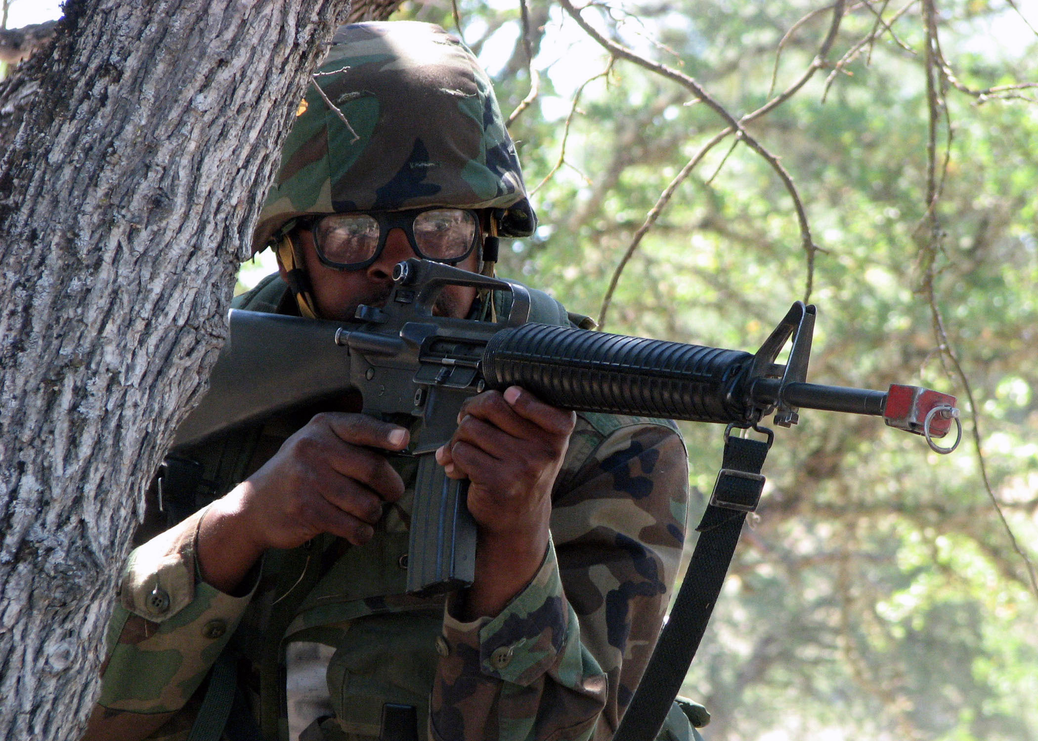 FORT HUNTER LIGGET, Calif. (July 13, 2007) - Culinary Specialist 1st Class Derrick R. Wilson, of Naval Mobile Construction Battalion (NMCB) 5, takes cover during a reconnaissance patrol during a field exercise (FEX). NMCB-5 squad leaders participated in this FEX to help improve leadership and technical knowledge in various contingency operations. U.S. Navy photo by Mass Communication Specialist 3rd Class Patrick W. Mullen III (RELEASED)